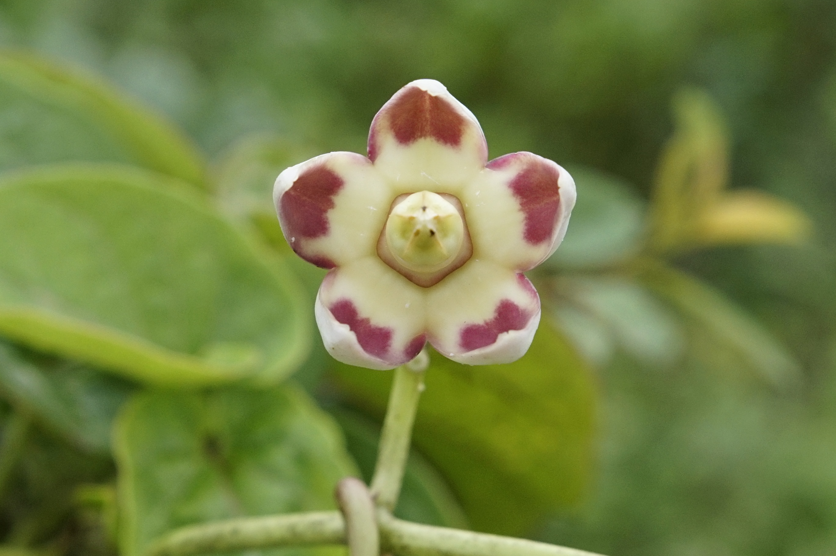 Holostemma Creeper (Holostemma ada-kodien)